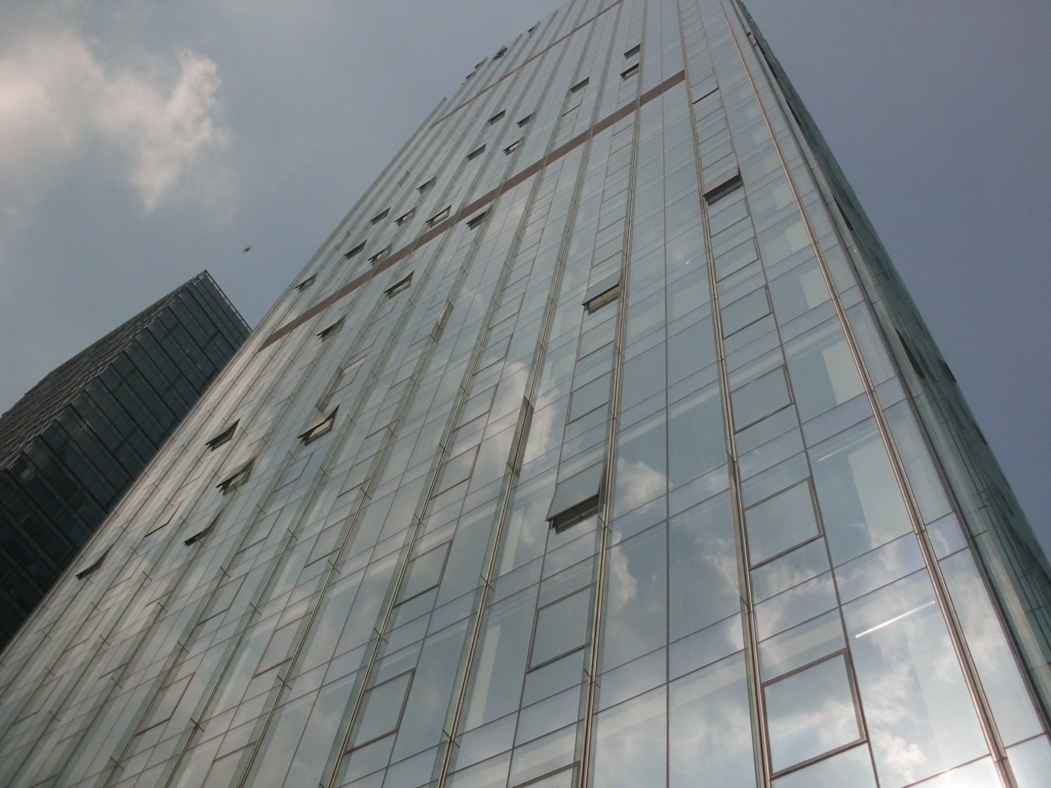 Huacheng mansion